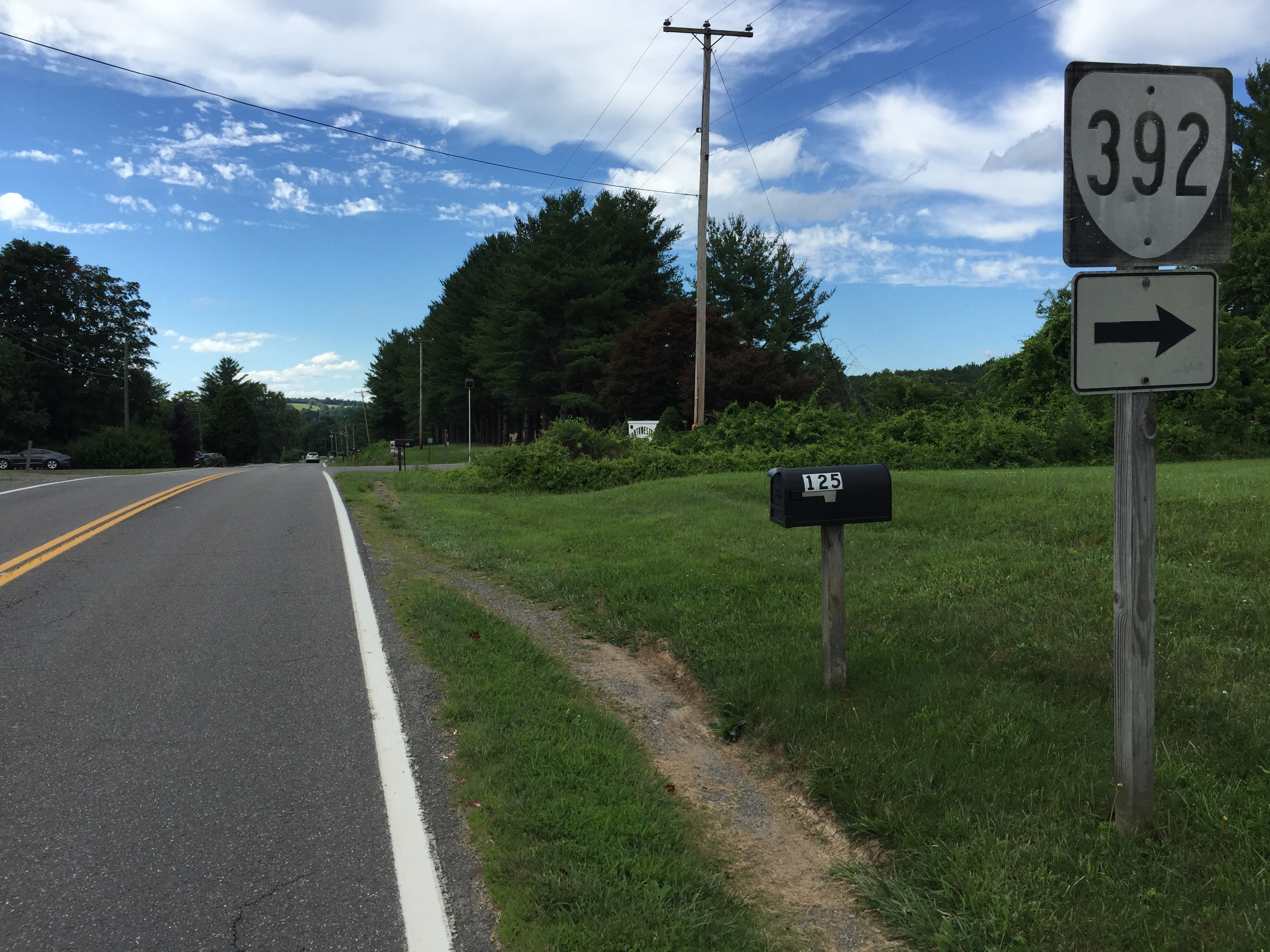 View north along Training Center Road (Virginia State Secondary Route 958) at Virginia State Route 392 (Harrison Circle) at the Southwestern Virginia Training Center in Woodlawn, Carroll County, Virginia